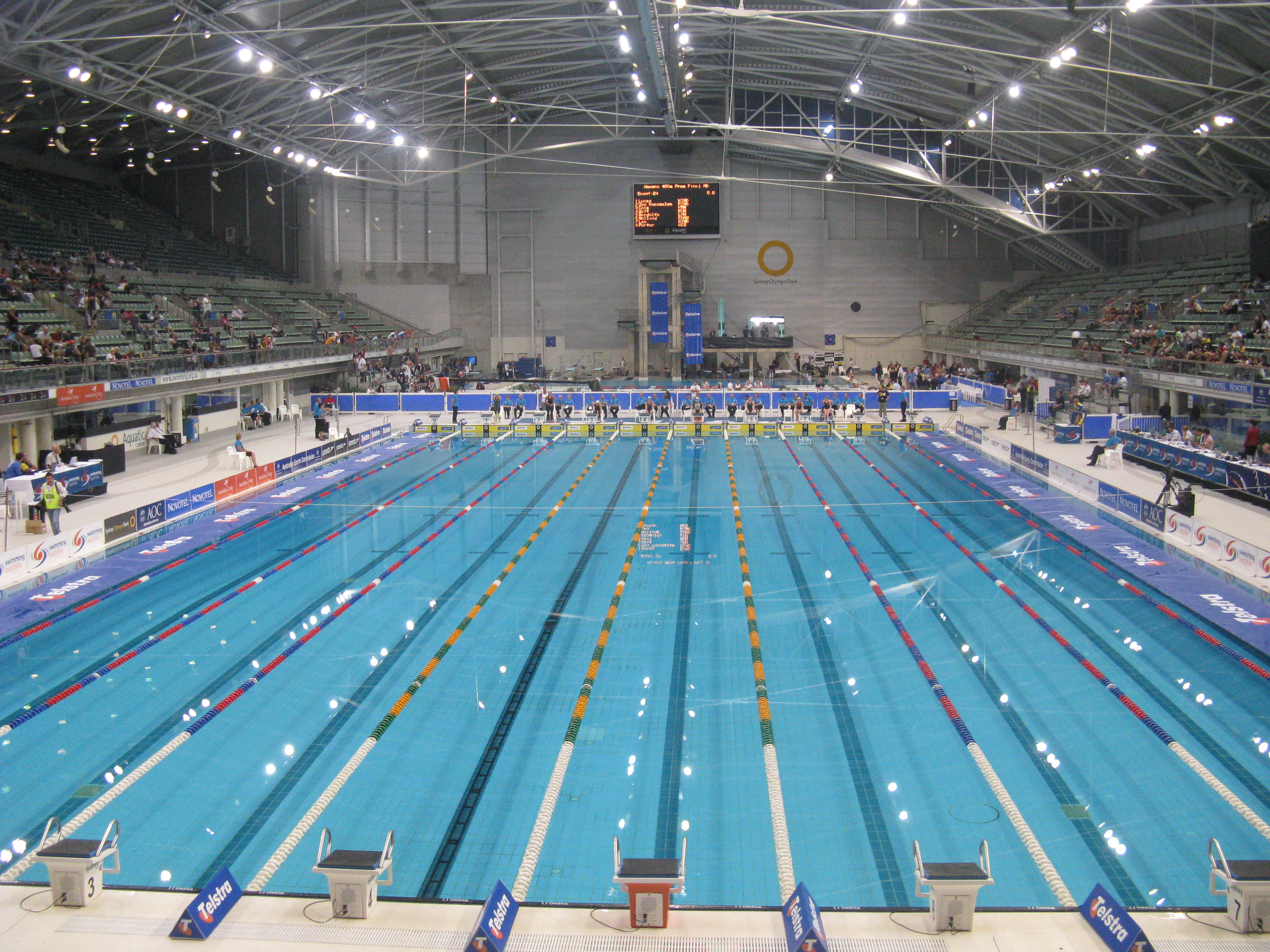 The Sydney Olympic Park Aquatic Centre during the Telstra Australian Swimming Championships